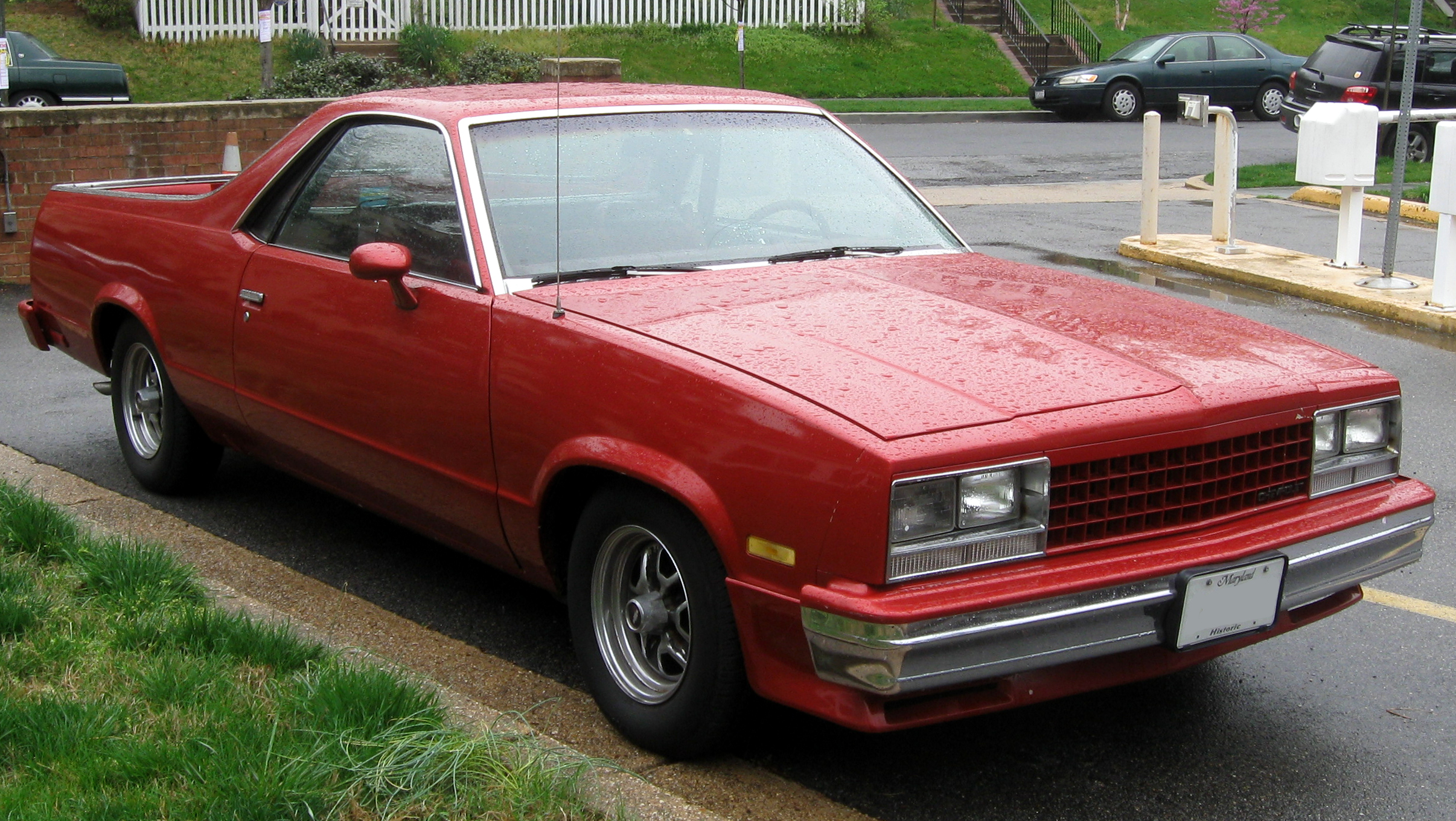 Chevrolet El Camino photographed in Washington, D.C., USA.